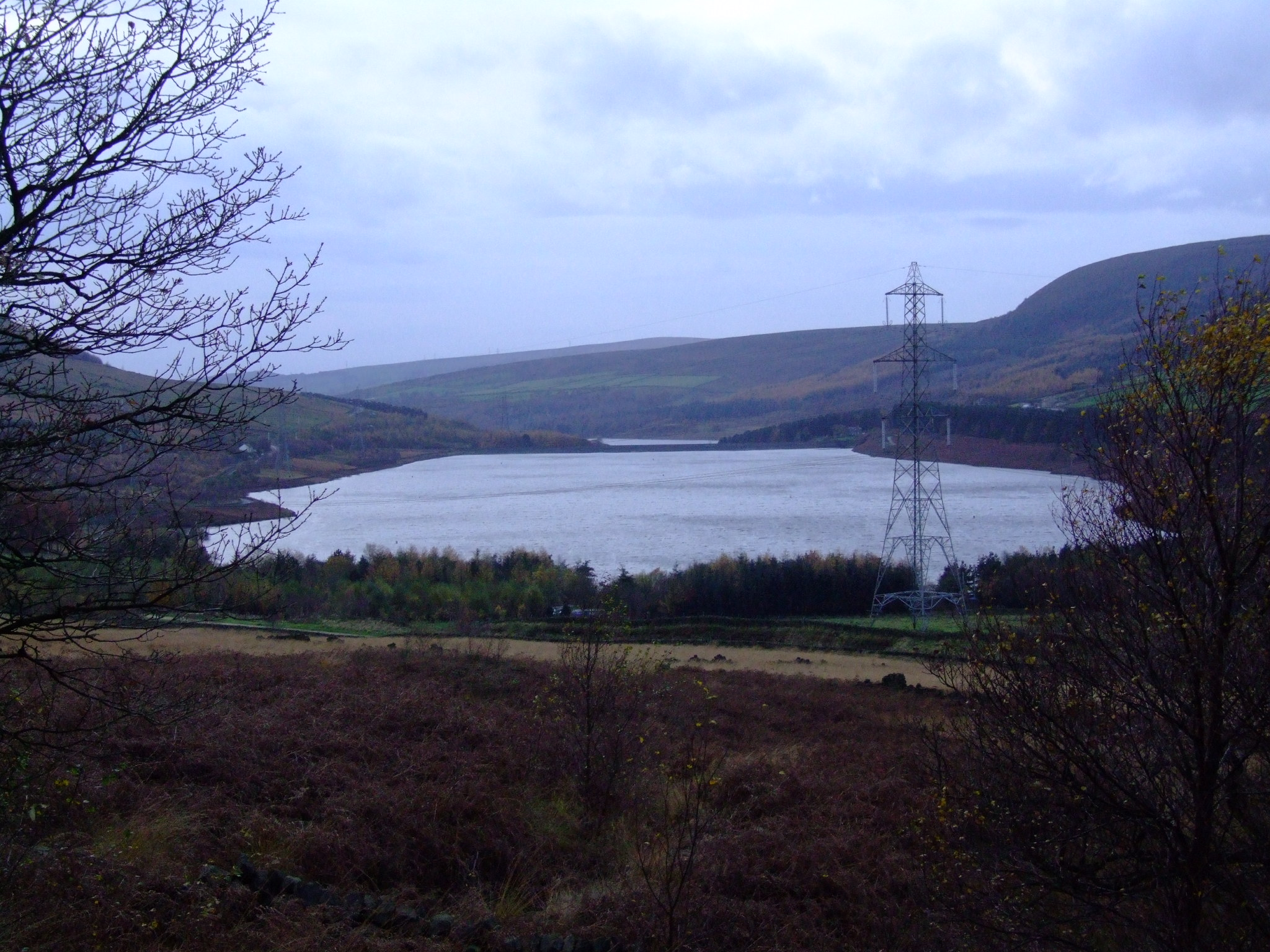 Longdendale in Derbyshire is the valley of the River Etherow. The Longdendale Chain is a series of reservoirs built to provide drinking water forManchester. The Torside Reservoir is the second highest in the chain. Tintwistle Knarr is to the right while to the south and left is Peak Naze Moor. - OpenStreetMap(Info)